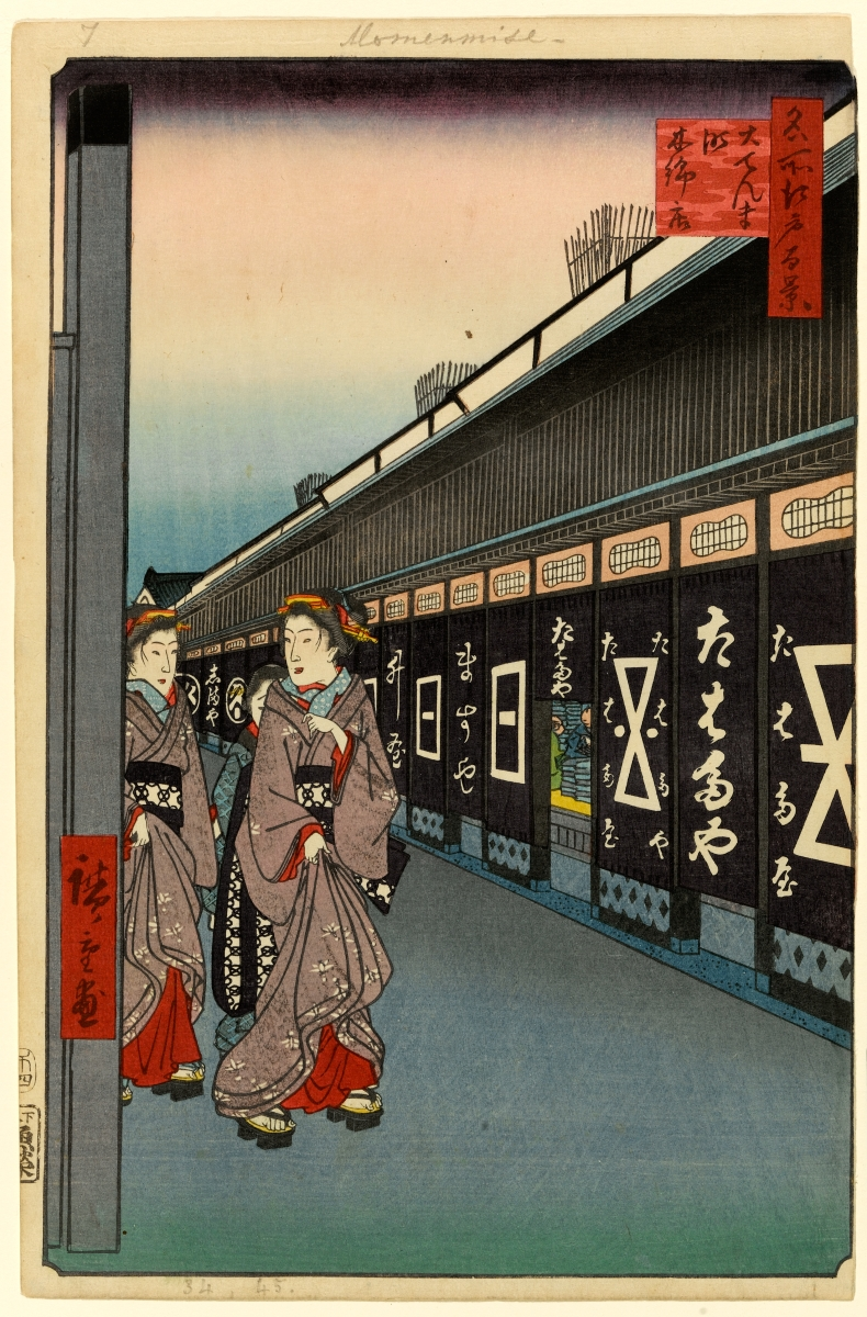 Part of the series One Hundred Famous Views of Edo, no. 007, part 1: Spring.